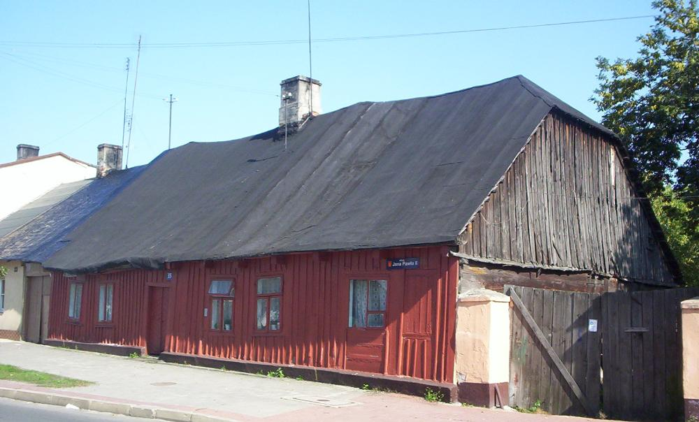 Wooden house in Biała Rawska, Poland.